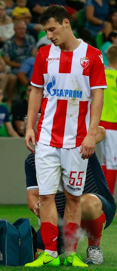 Slavoljub Srnić with FK Crvena Zvezda in an UEFA Europa League game against FC Krasnodar.